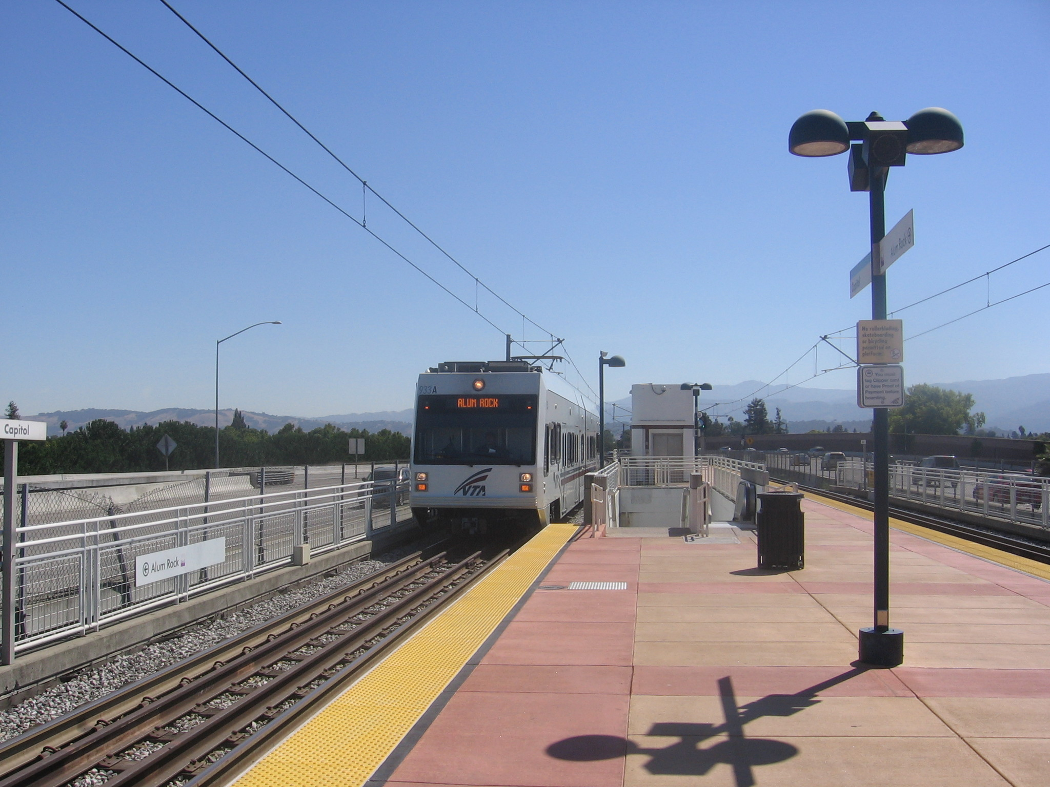 The Capitol (VTA) light rail station in San José, California, USA.